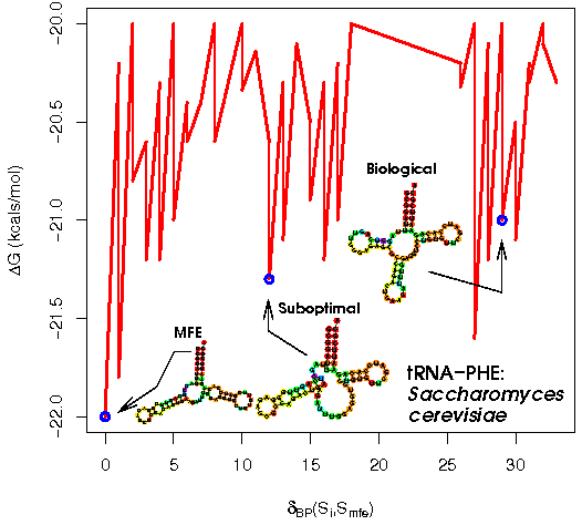 TRNA suboptimal structures predicted and plotted using the Vienna RNA package